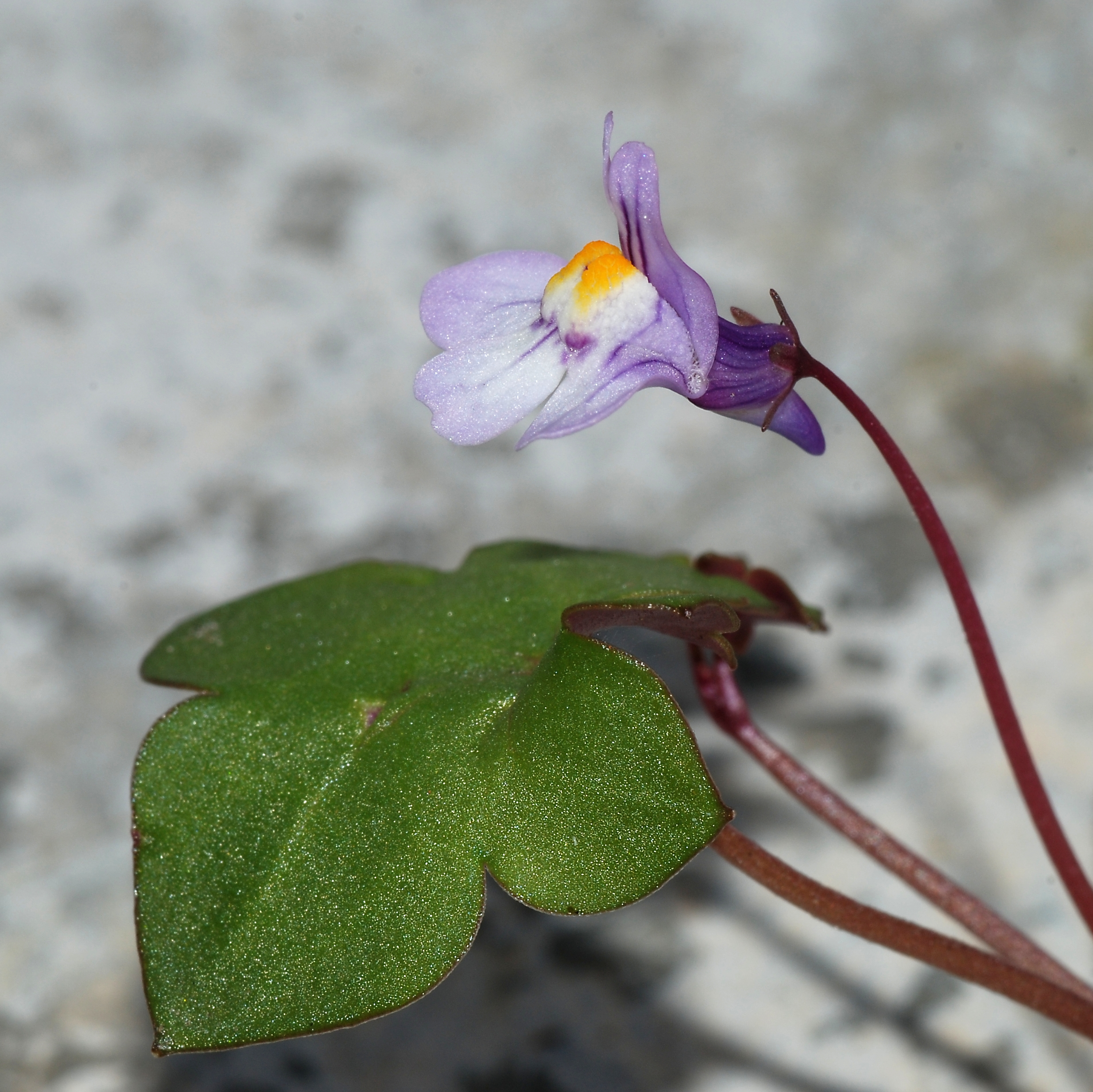 Floer an leaf of an Ivy-leaved Toad flax (Cymbalaria muralis)